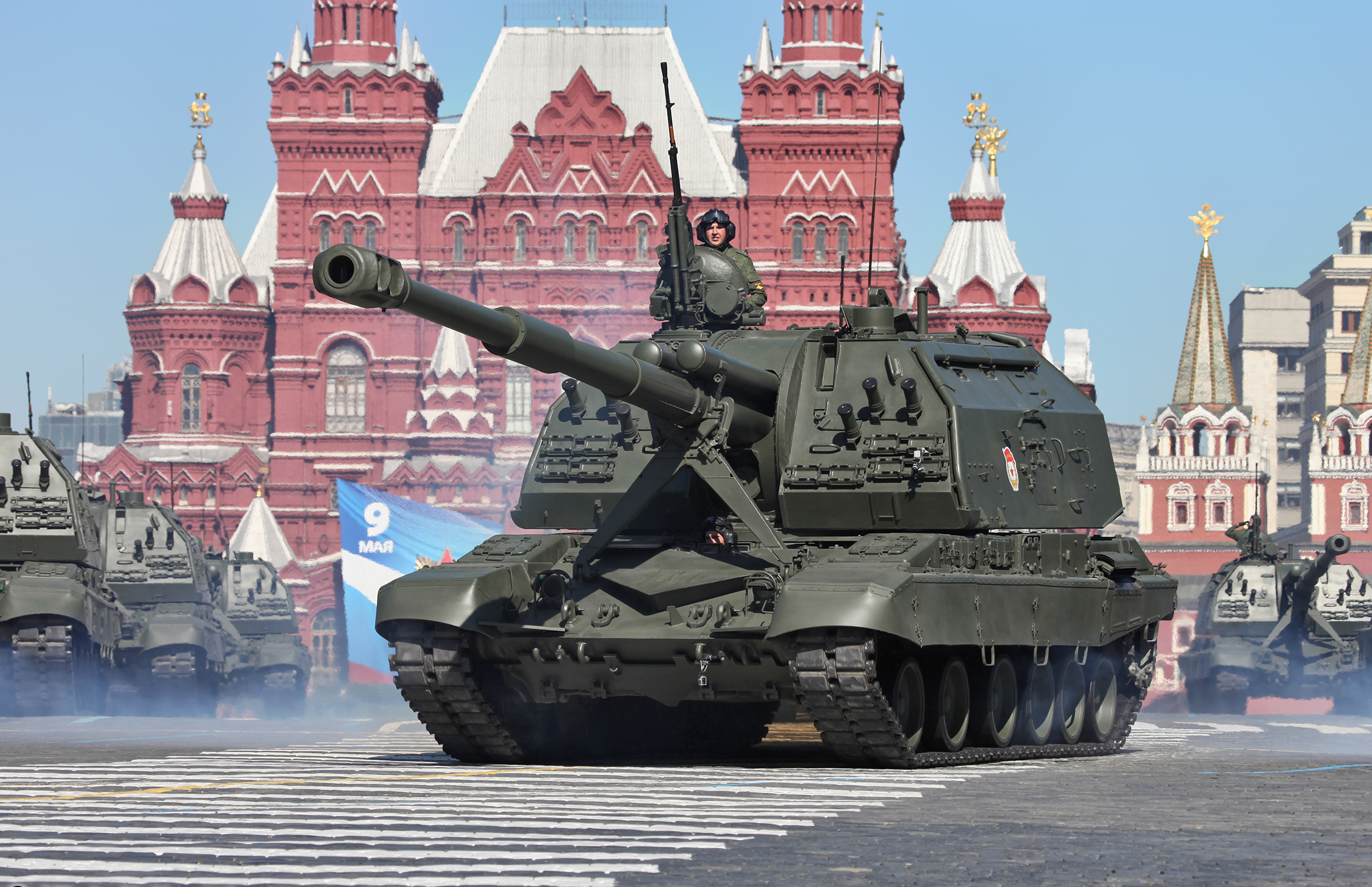 Msta-S 152mm self-propelled howitzer